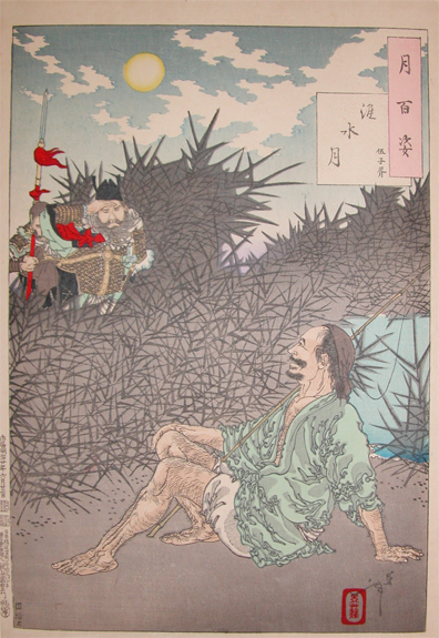 Huai River Moon - Wu Zixu (Waisui no tsuki - Goshisho)